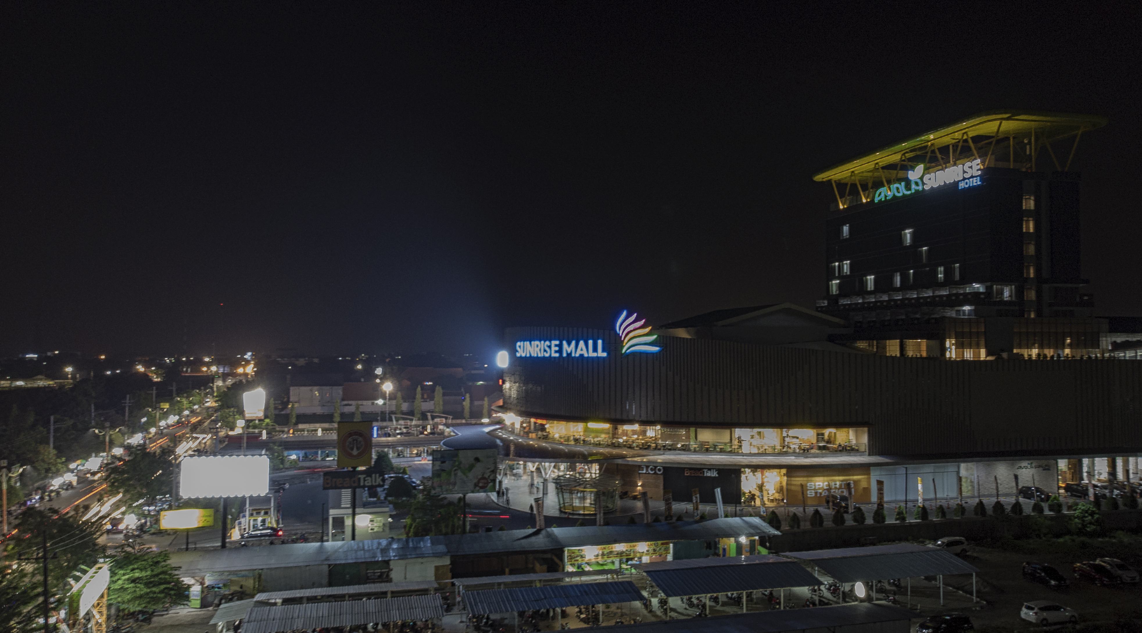 HIngga Oktober 2018, hanya ada 1 Mall di Mojokerto, Sunrise Mall. Suasana di bagian luar mall mungkin jauh lebih ramai ketimbang mall itu, banyak spot makan menarik juga hiburan anak, beberapa adalah pindahan dari alun-alun kota Mojokerto